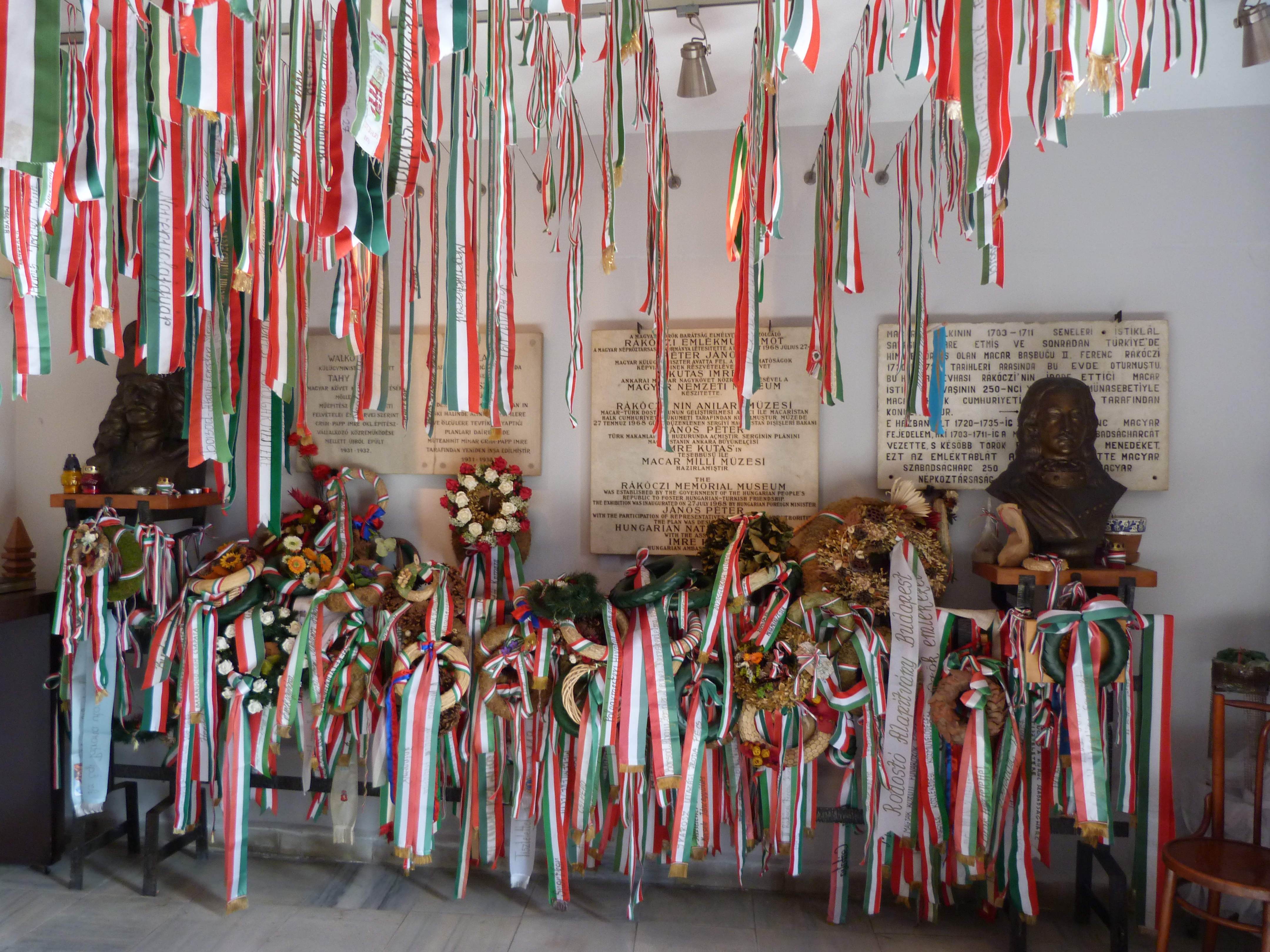 Live on the 25th of october, 2014. Rákóczi Museum, Tekirdağ, Turkey. ©© Derzsi Elekes Andor, Budapest, 2014, Published in the Metapolisz DVD line. You are authorised to use this vid under Creative Commons – even for commercial, for profit purposes. The vid must be attributed to Derzsi Elekes Andor. All of the photos and vids in the Metapolisz DVD line are under Creative Commons and can be used even for commercial – for profit – purposes. Recommended Citation Derzsi Elekes Andor: Metapolisz DVD line